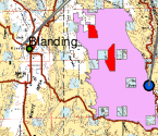 Extract from a BLM map showing the Alkali Ridge area of eastern Utah. The area shown in purple is the Alkali Ridge "Area of Critical Environmental Concern", and the area in red is the Alkali Ridge National Historic Landmark.